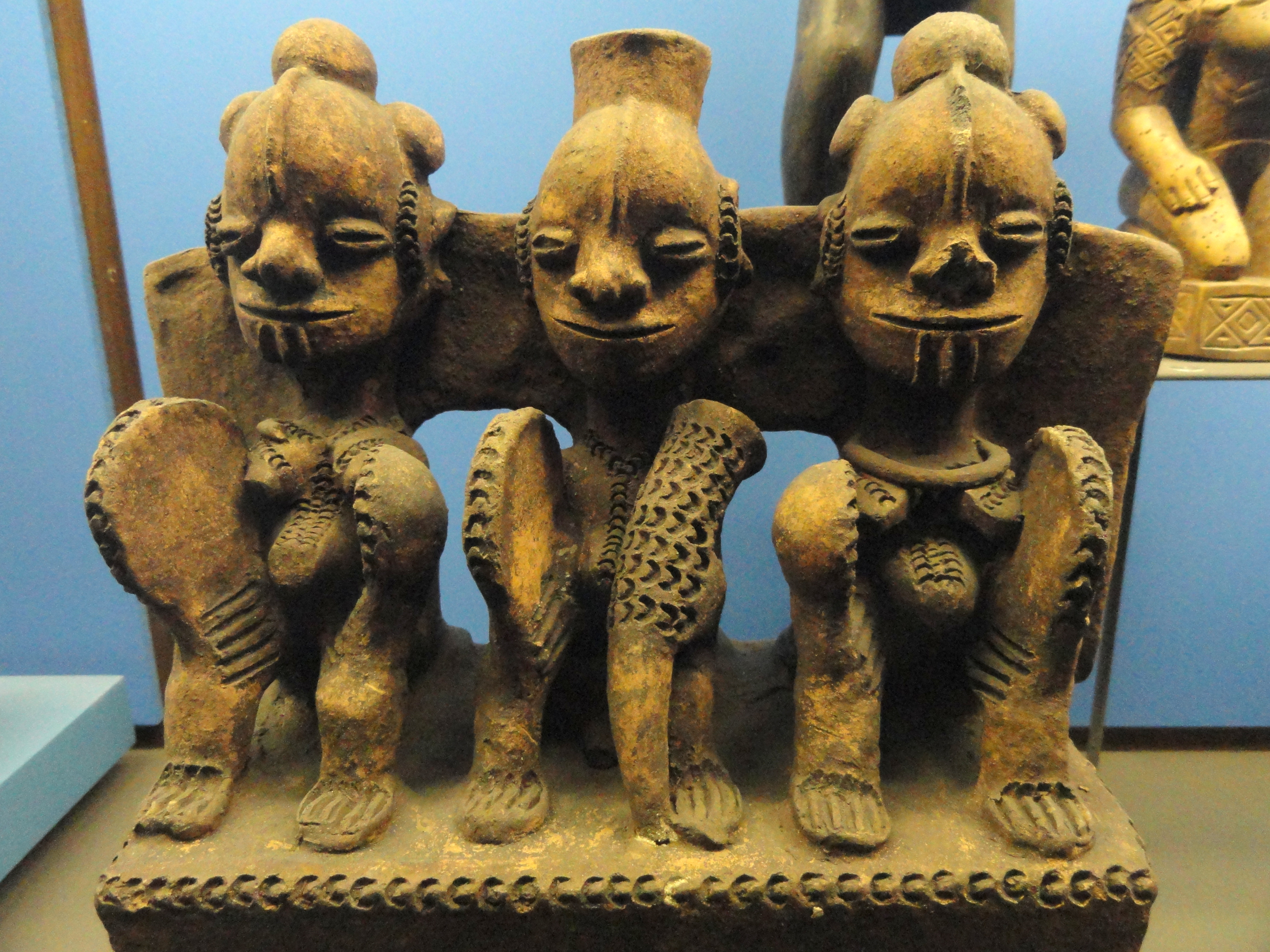 Exhibit in the African collection of the American Museum of Natural History, Manhattan, New York City, New York, USA.